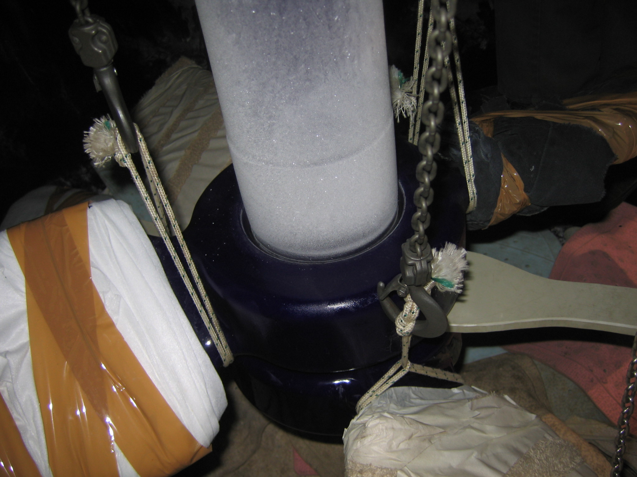 Assembly glass impeller (Cruo-Lock) in a reactor. Cooling by liquid nitrogen (-198.6°C).